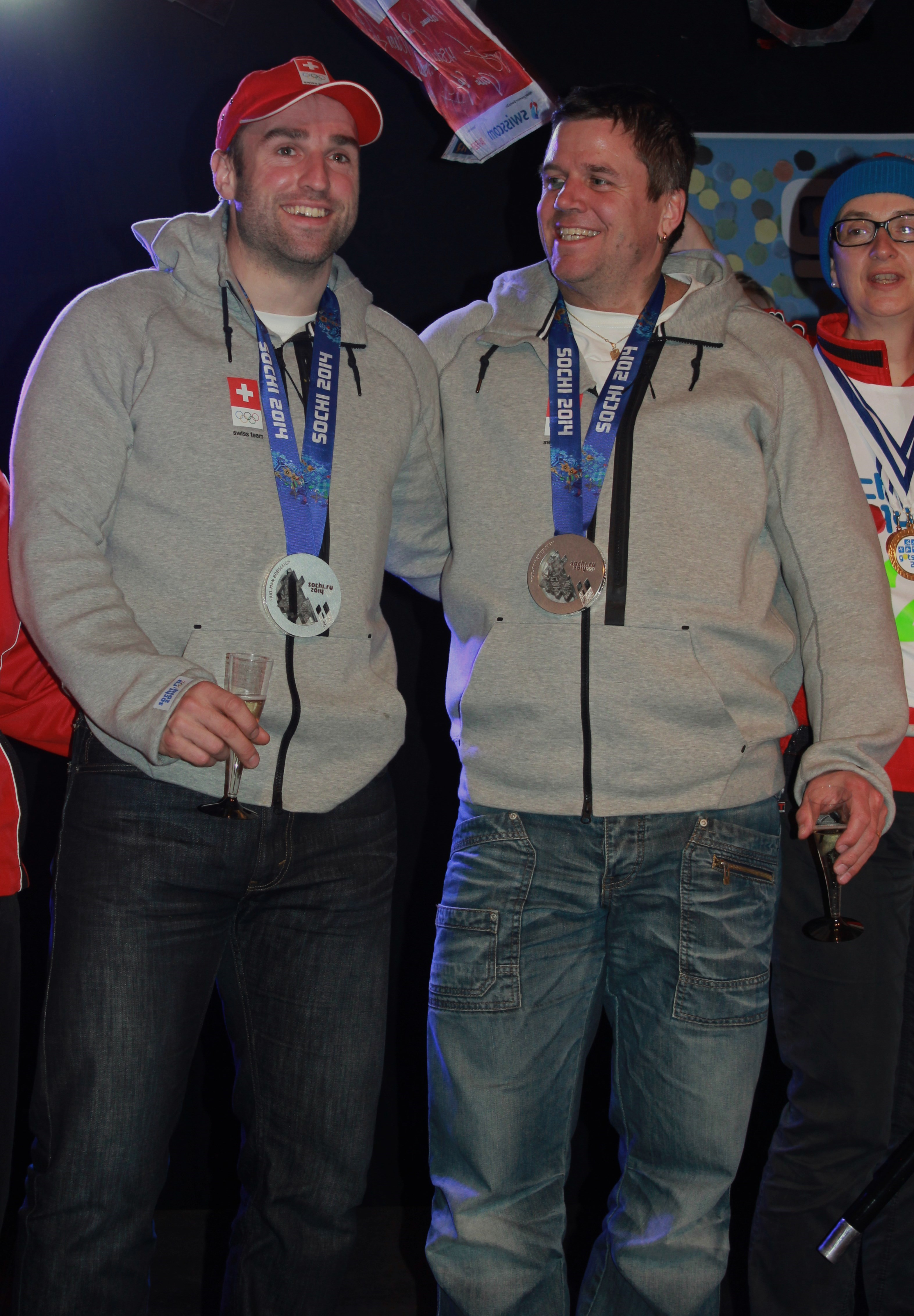 Beat Hefti (on the right) and his companion Alex Baumann at a public reception in Central Switzerland after winning the Olympic silver medal in the two-man Bobsleigh event (2014 Winter Olympic Games).